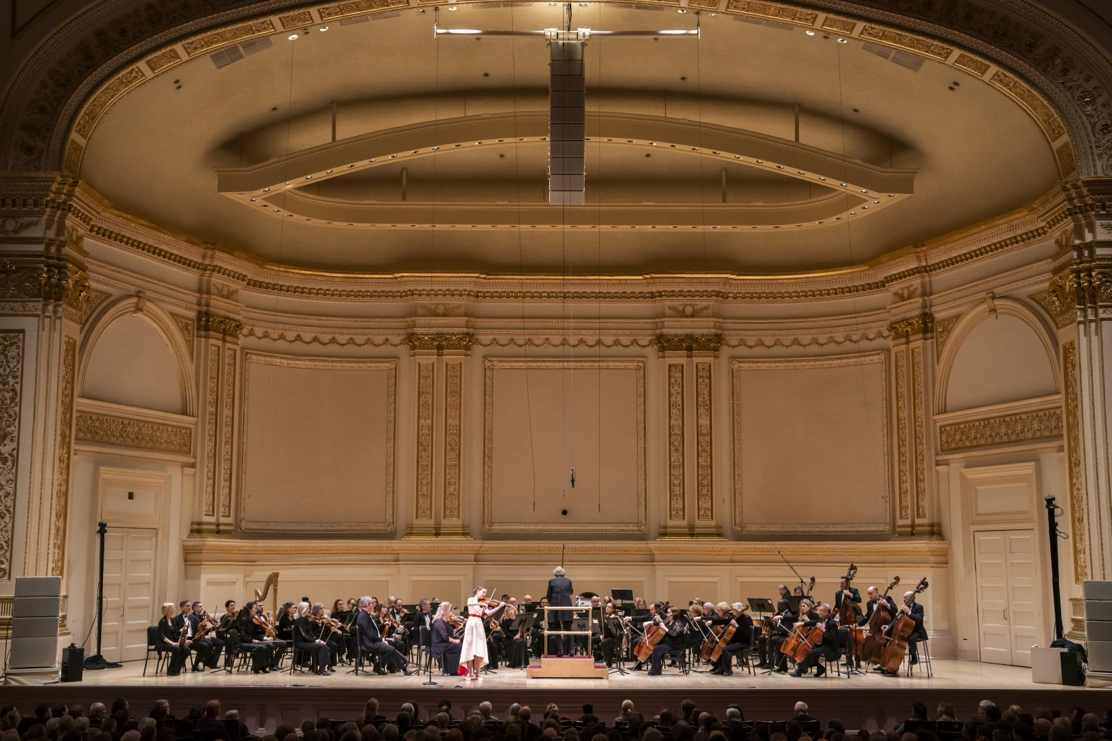 Alma Deustcher making debut at Carnegie Hall with Jane Glover conducting the Orchestra of St. Luke's, 12/12/19. Photo by Chris Lee